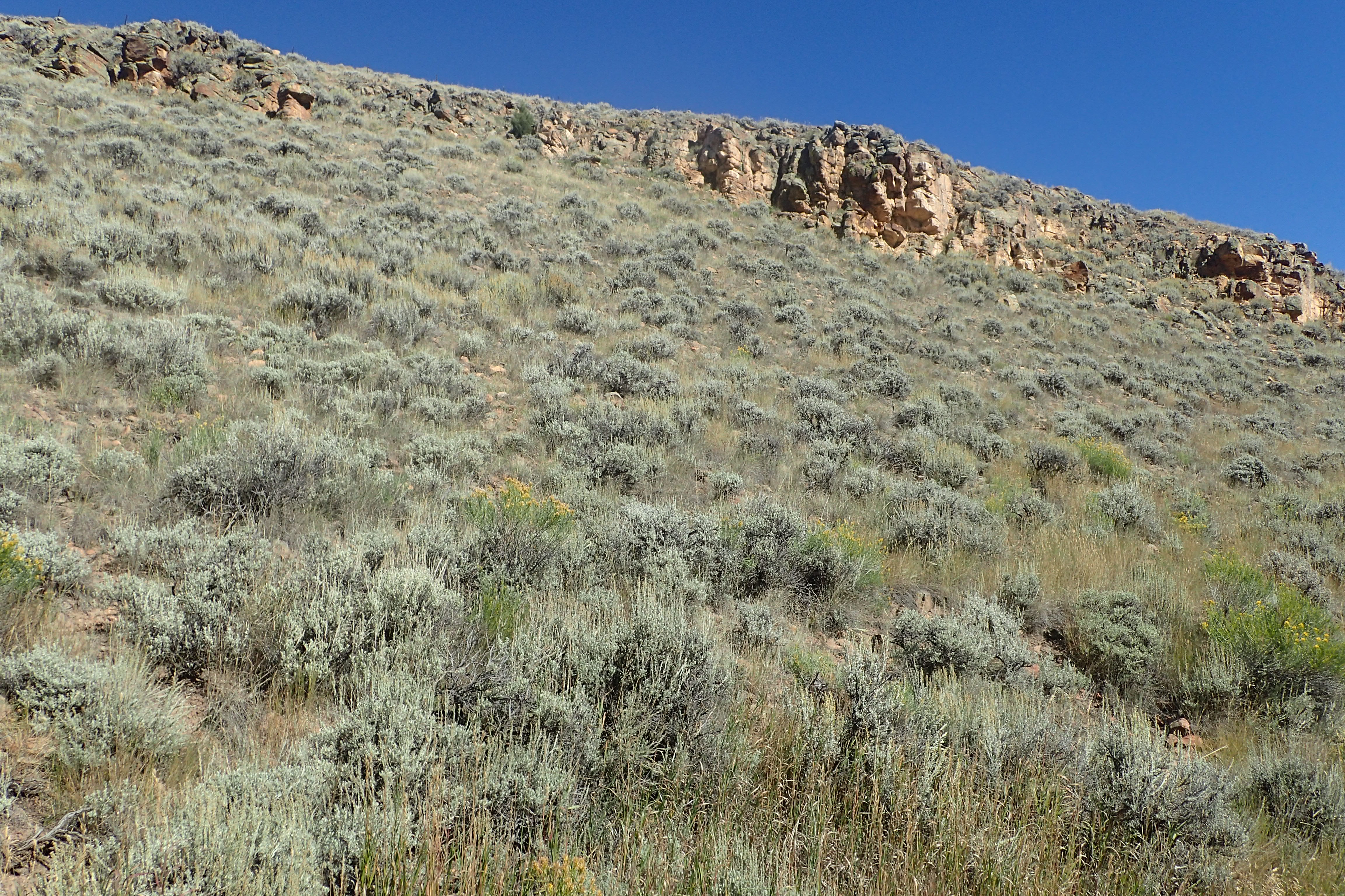 Artemisia tridentata at Williams Fork Reservoir, Colorado, USA